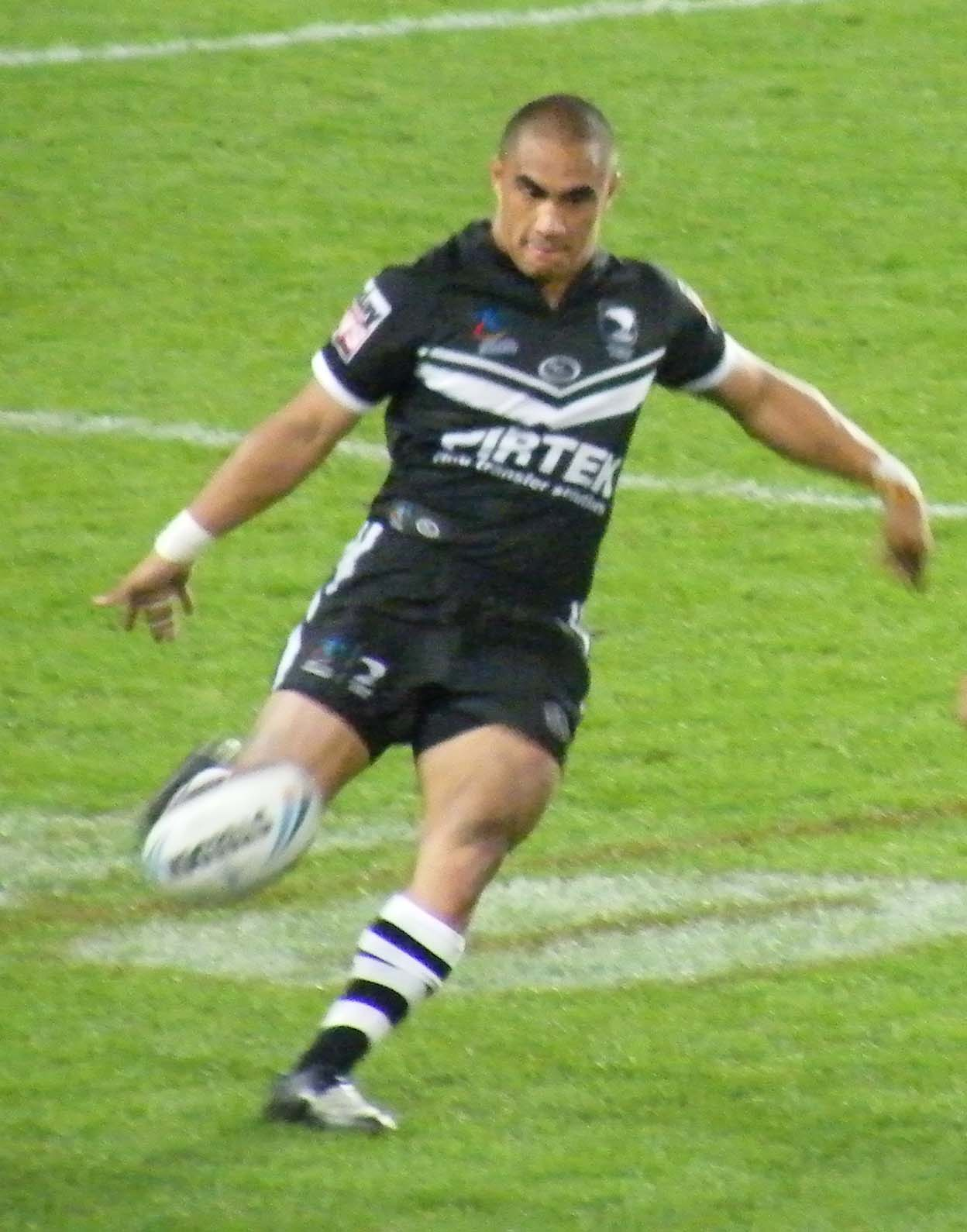 New Zealand halfback Thomas Leuluai. RLWC 2008